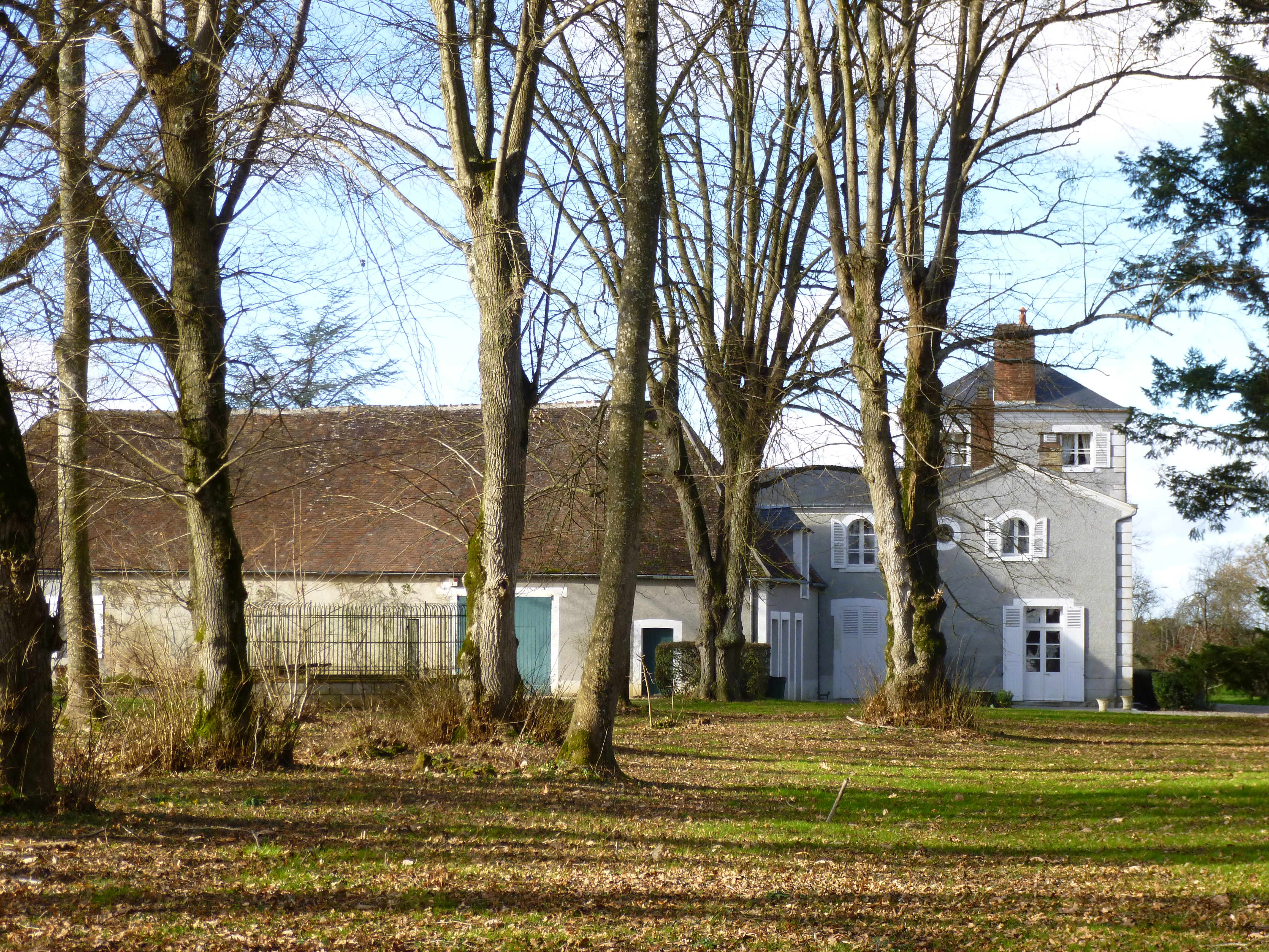 La Chapelle-sur-Aveyron, Loiret, Centre, France. Château des Ballus, built around 1820.